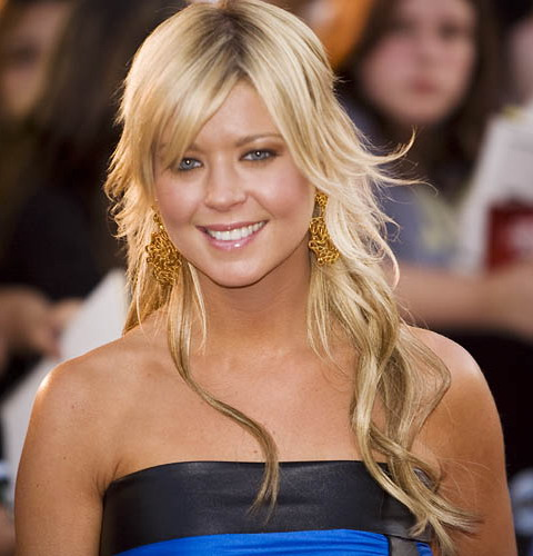 Tara Reid at 2007 Much Music Awards